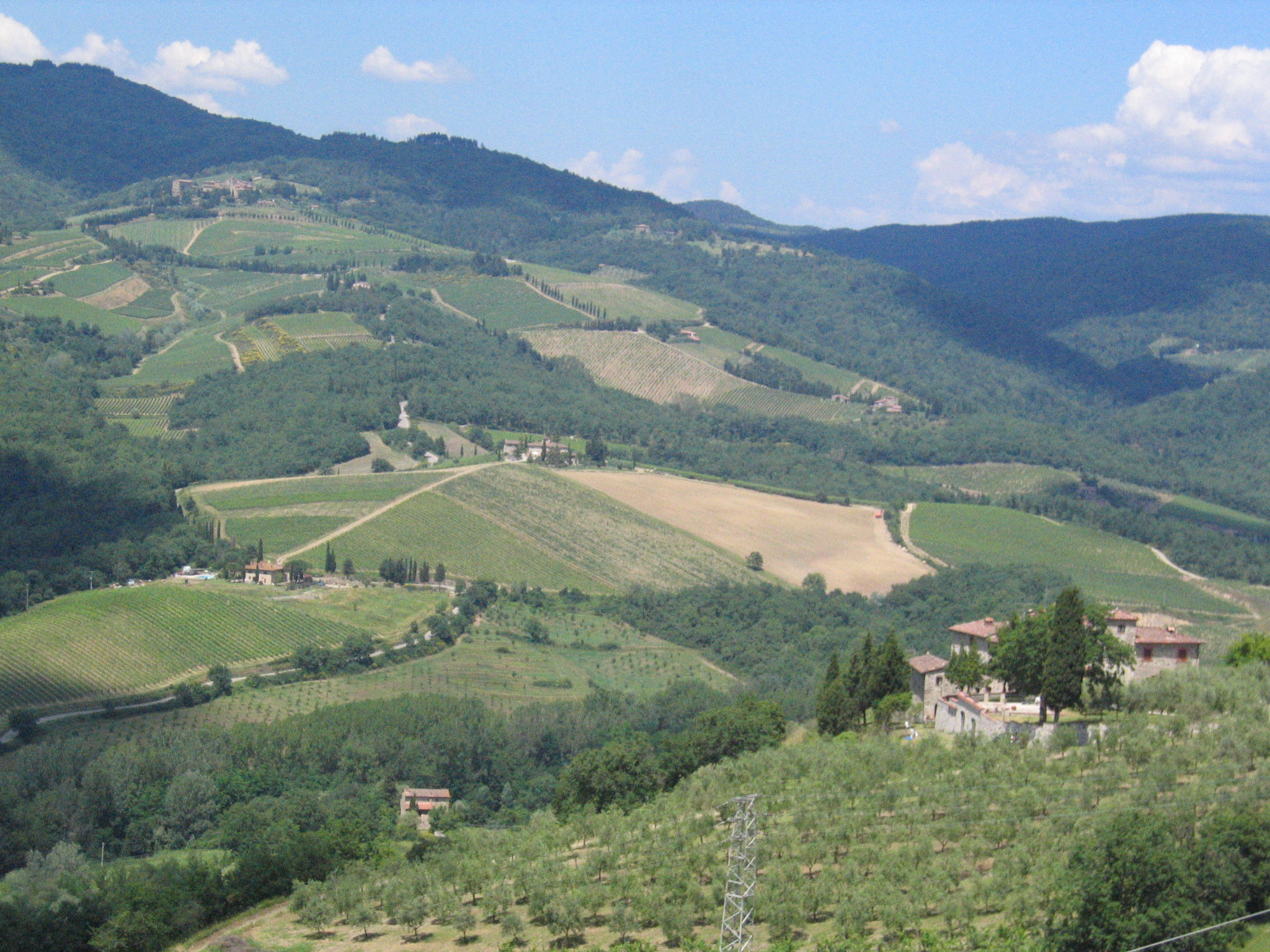 A majestic view of the countryside of Radda in Tuscany, Italy.